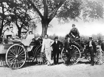 Carl Benz, his family and Theodor Baron von Liebieg in 1894, on a trip from Mannheim to Gernsheim. Benz and his family are in a Benz Vis-à-Vis on the left, while von Liebieg is in a Benz Victoria on the right.